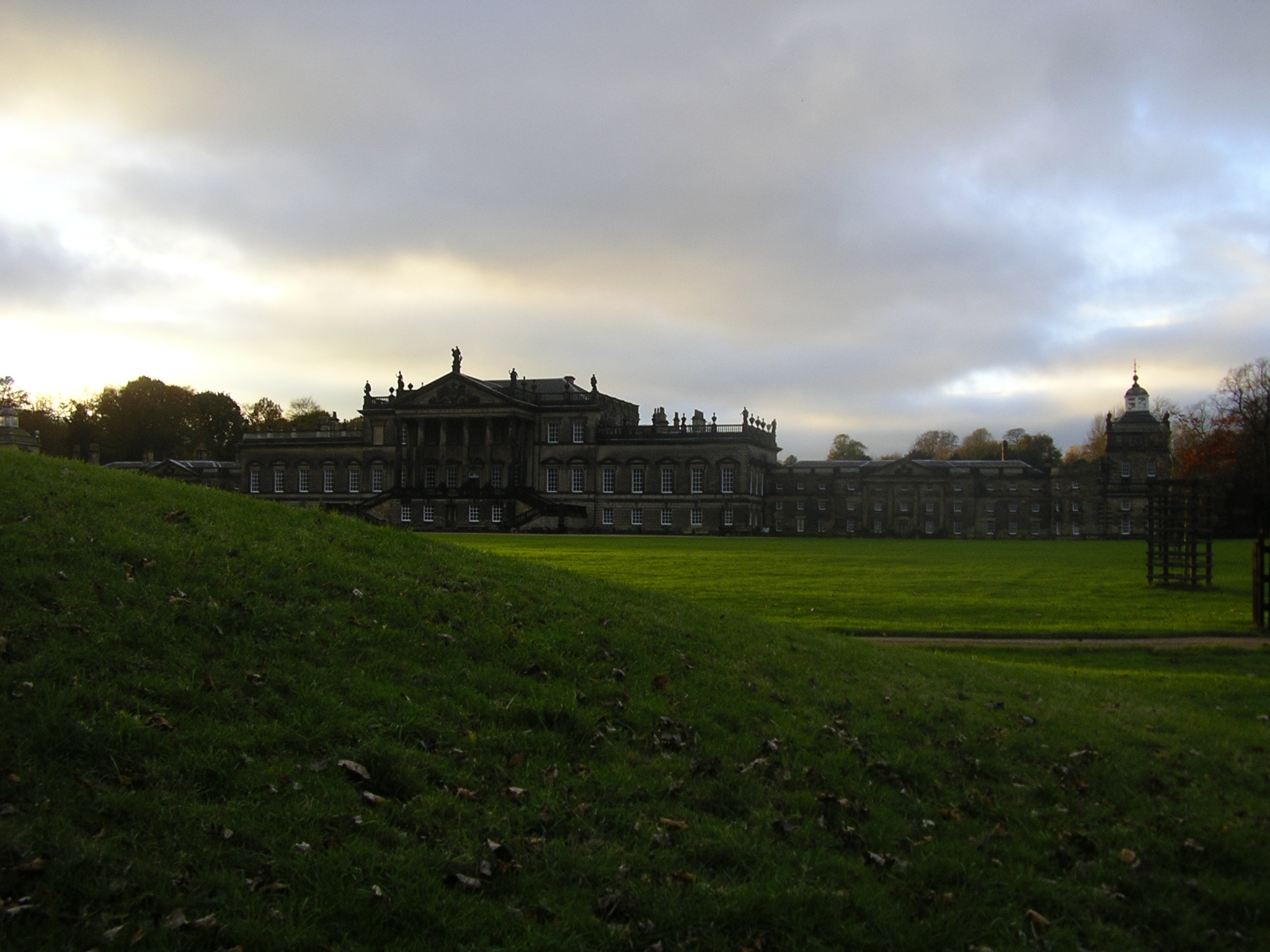 Central part and north wing of the east facade of Wentworth Woodhouse, seen from the west